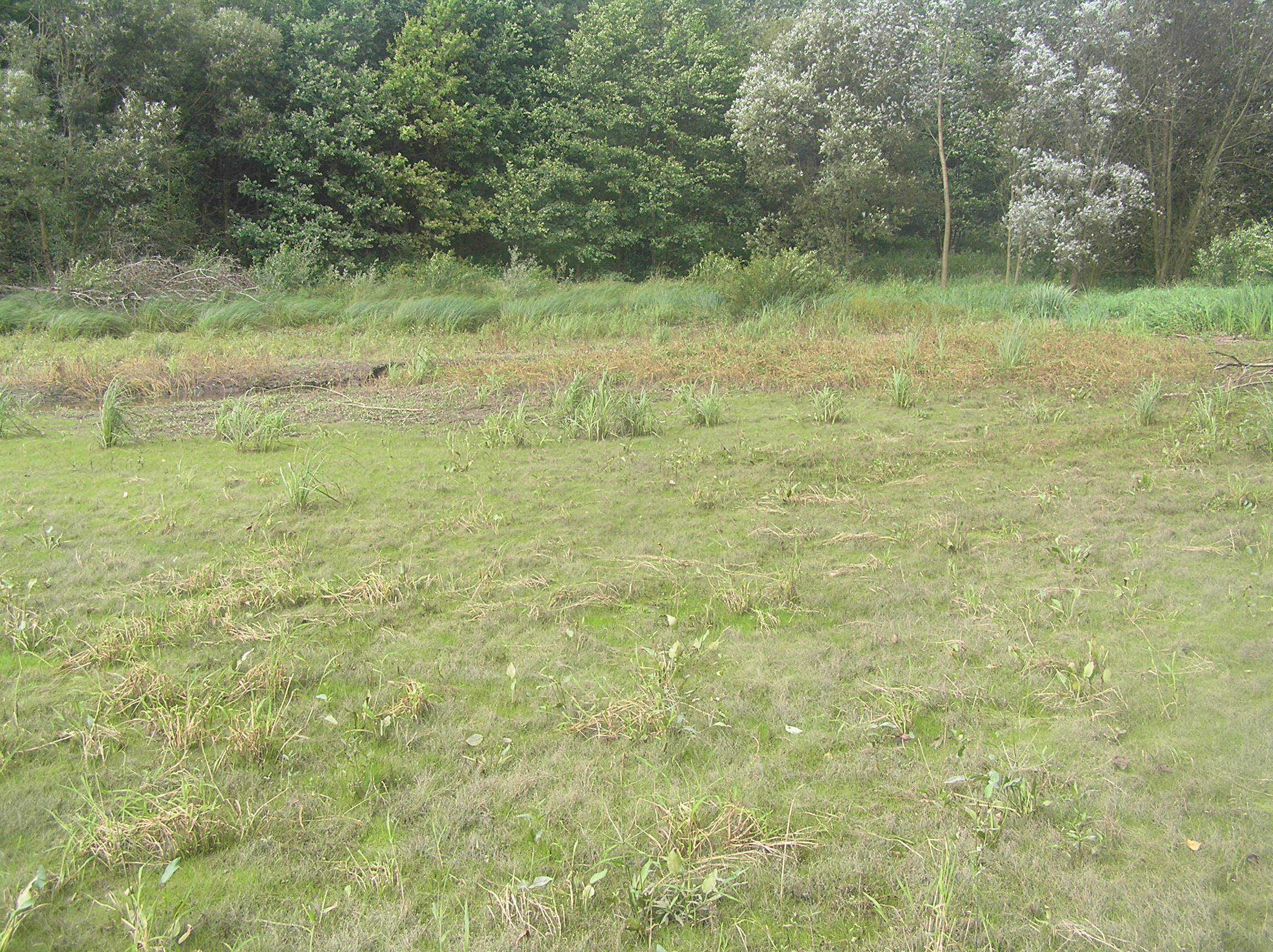 The water reservoir Tršice, this the small dam near the village Tršice in Olomouc Region, Czech Republic, the exposed ground with Eleocharis acicularis